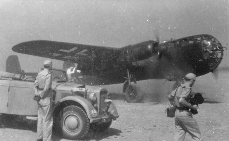 Information added by Wikimedia users.The photographer misidentified this aircraft, cockpit section and BMW 801 engine identifies this as a Dornier Do 217 K